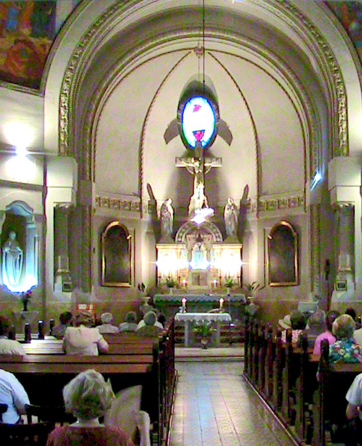 The Church of "Piarist High School" in Timisoara, Romania